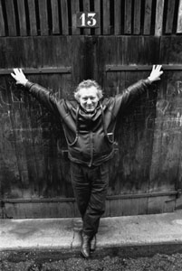 Julos Beaucarne